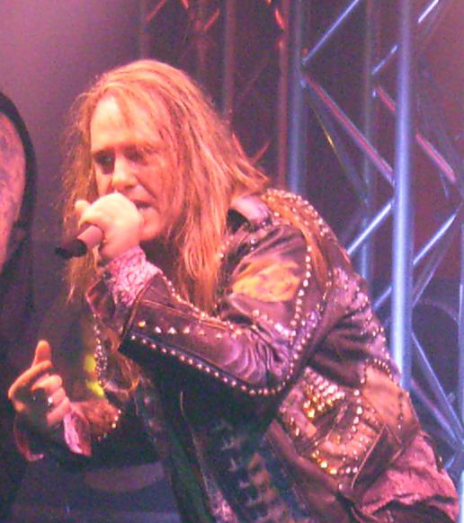 Helloween Live at Löwensall in Nuremberg 18.01.2006